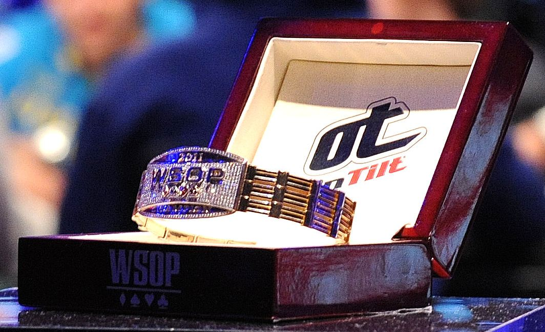 2011 WSOP Main Event Bracelet